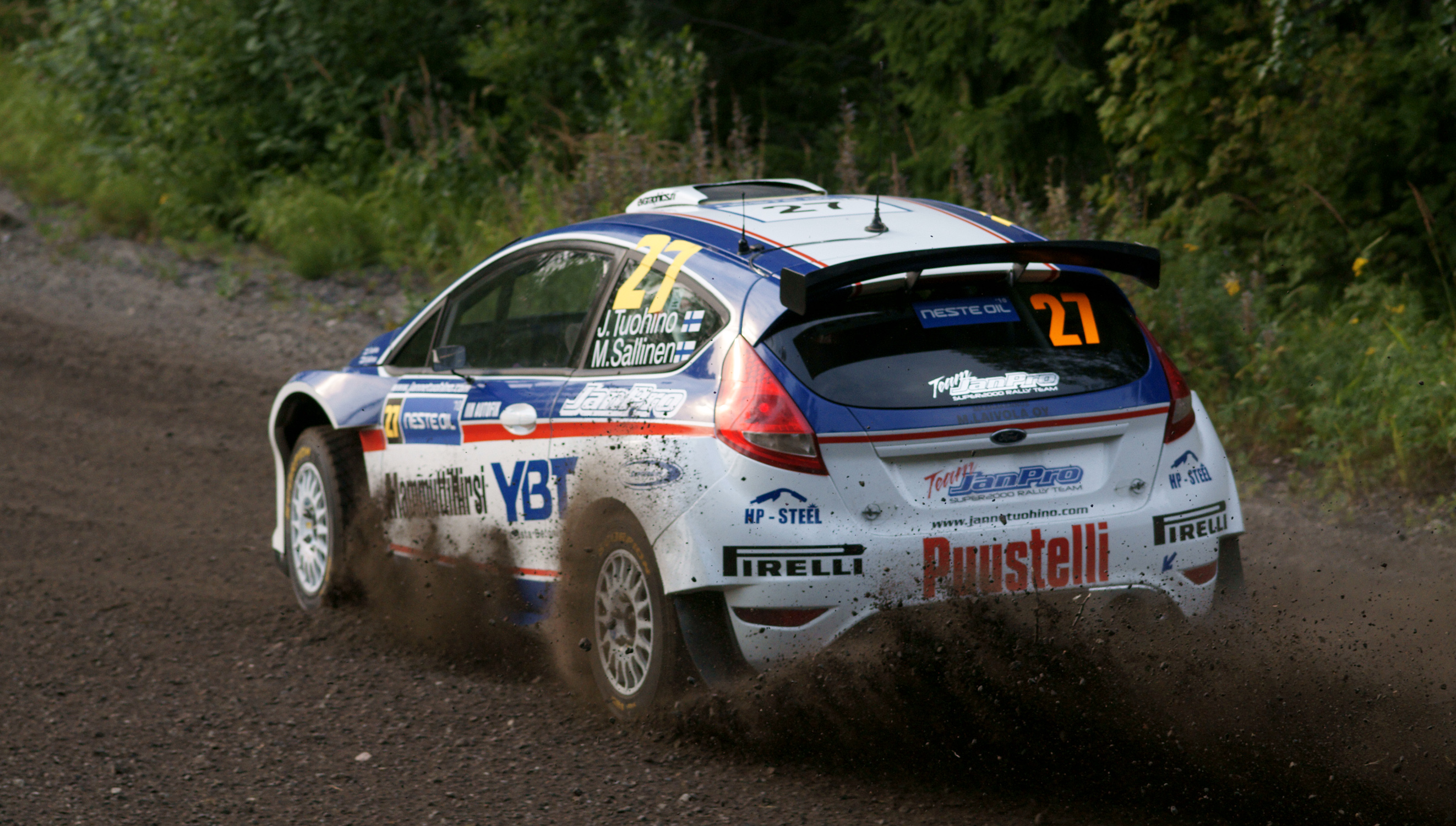 Janne Tuohino driving at Laajavuori special stage, Rally Finland 2010.